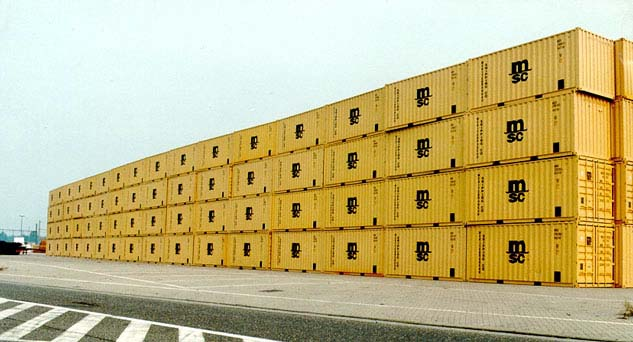 New MSC's containers.